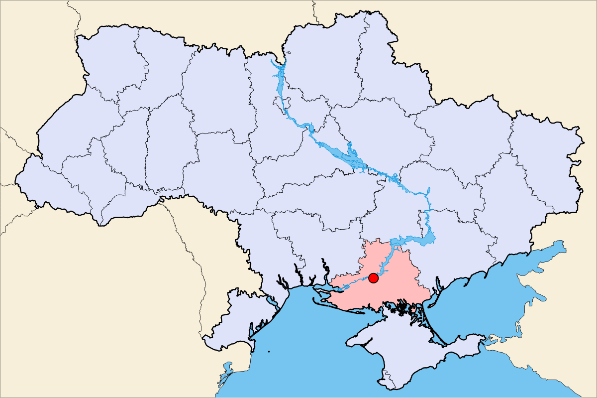 Description = Nova Kakhovka geographical position Source = own work, Skluesener Date = 22.01.2006 Author = Skluesener Credits = Colours chosen according to a map of steschke